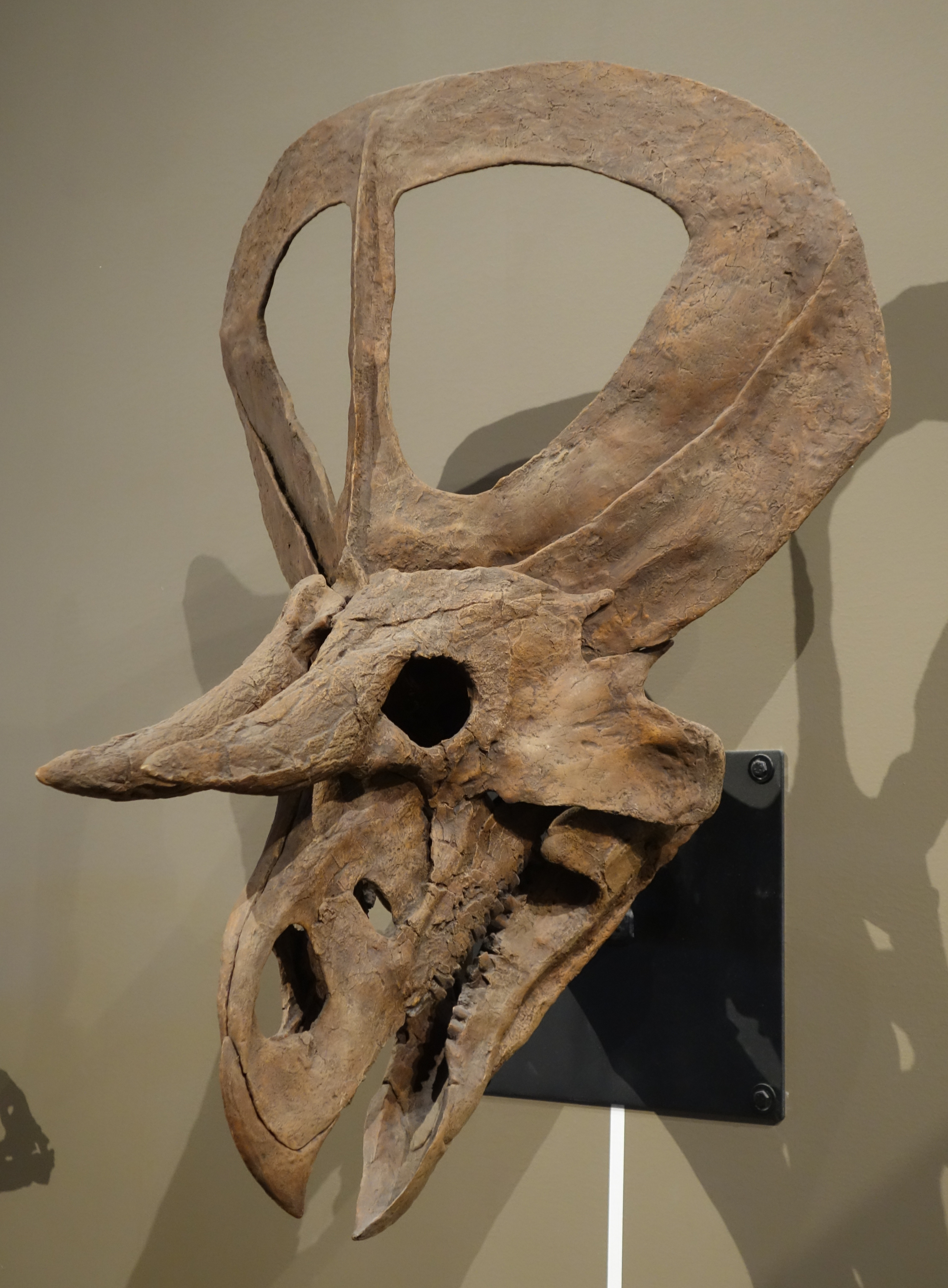 Zuniceratops christopheri, cast of MSM P 4185, on display at the Natural History Museum of Utah, Salt Lake City.